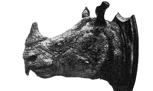 Head of a male Javan rhino (Rhinoceros sondaicus annamiticus) shot in Perak on the Malay Peninsula. Preserved in the Raffles Museum, Singapore. From Sody 1941, fig. 17.